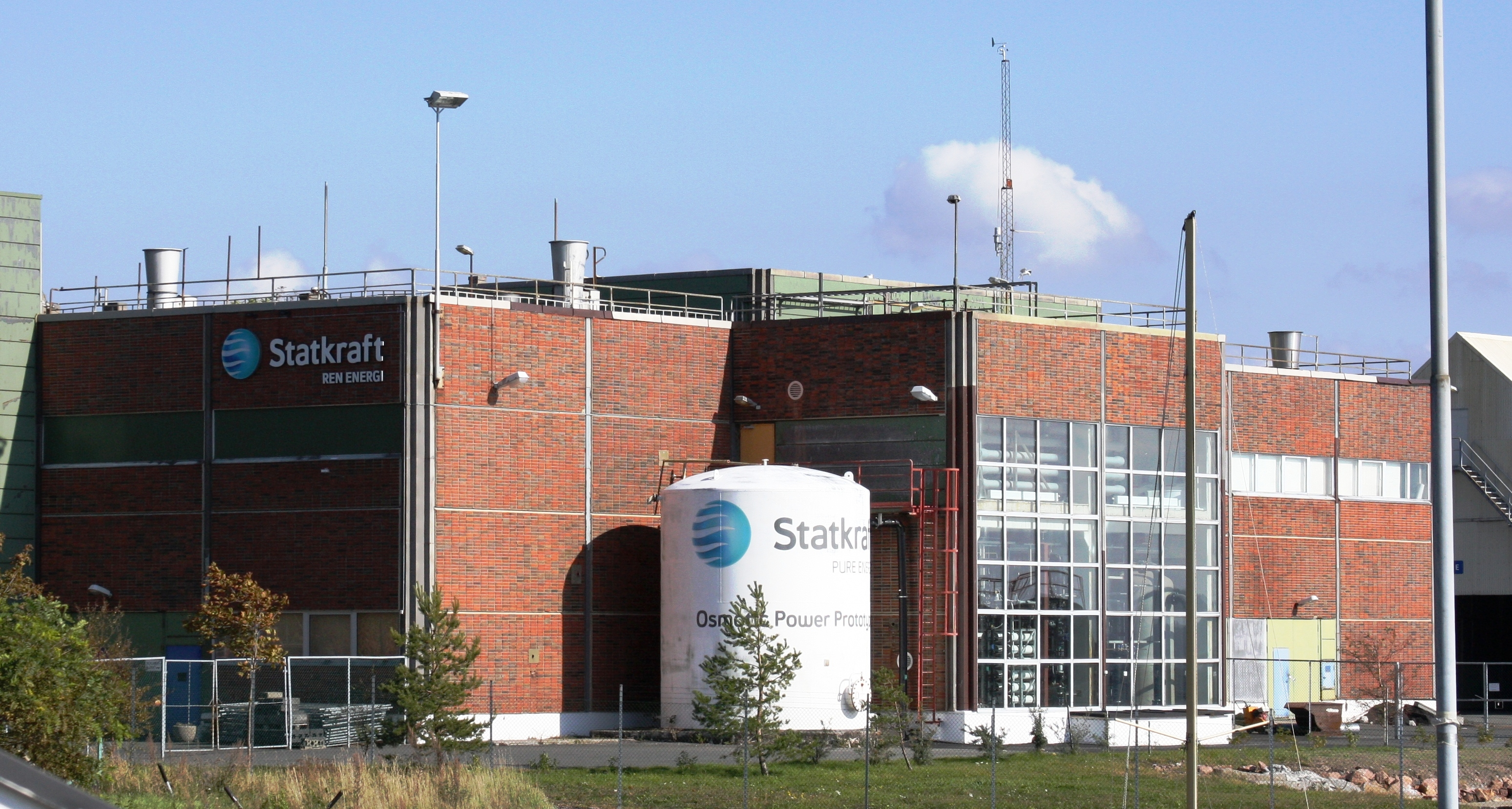 The Statkraft ASA osmosis power plant in Tofte, Hurum (Buskerud, Norway). This was the first osmosis power plant in the world.